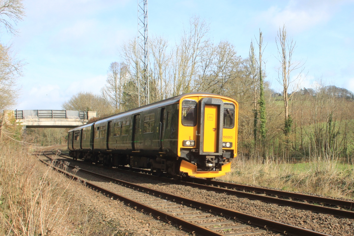 A Plymouth to Penzance service passes Respryn (between Bodmin Parkway and Lostwithiel) in Cornwall. The refurbished 'Sprinter' is Great Western Railway's 150263.